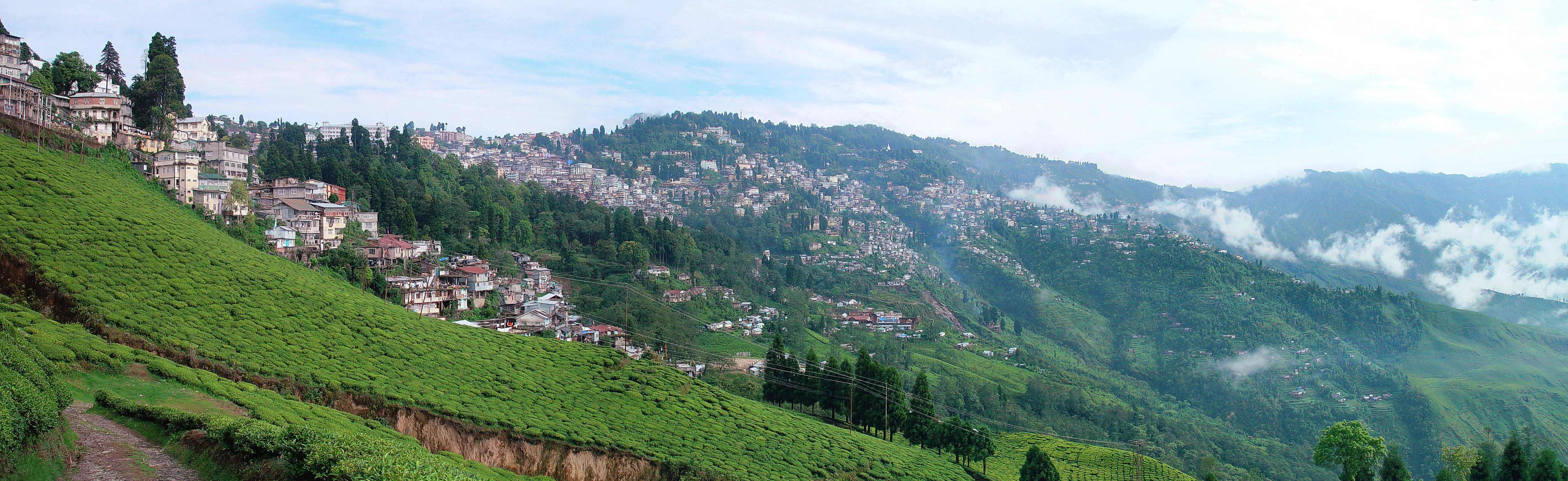 Darjeeling panorama taken by Mjanich. 15:31, 3. Jul 2005 Darkone 5587 x 1716 (2149789 Byte) (schwarzen Ecken gefüllt) 03:34, 25. Jun 2004 MichaelJanich 5587 x 1716 (1414687 Byte) (Darjeeling Panorama - corrected colors) 12:43, 21. Jun 2004 MichaelJanich 5049 x 1357 (987770 Byte) (Darjeeling Panorama) 23:32, 17. Mai 2004 Hph 400 x 611 (37088 Byte) (Blick auf Darjeeling)